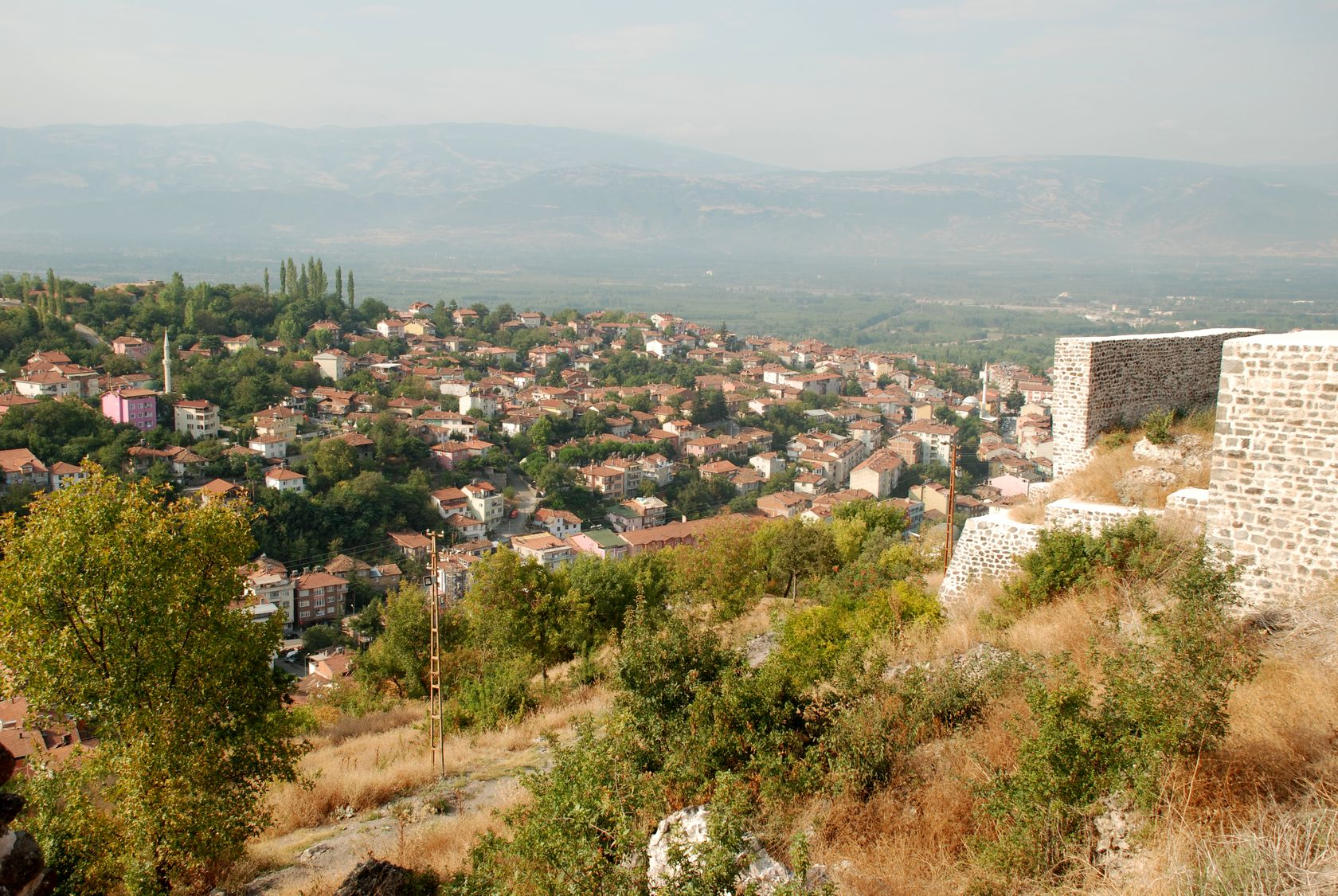 Niksar, Tokat province, city center from kale towards sw